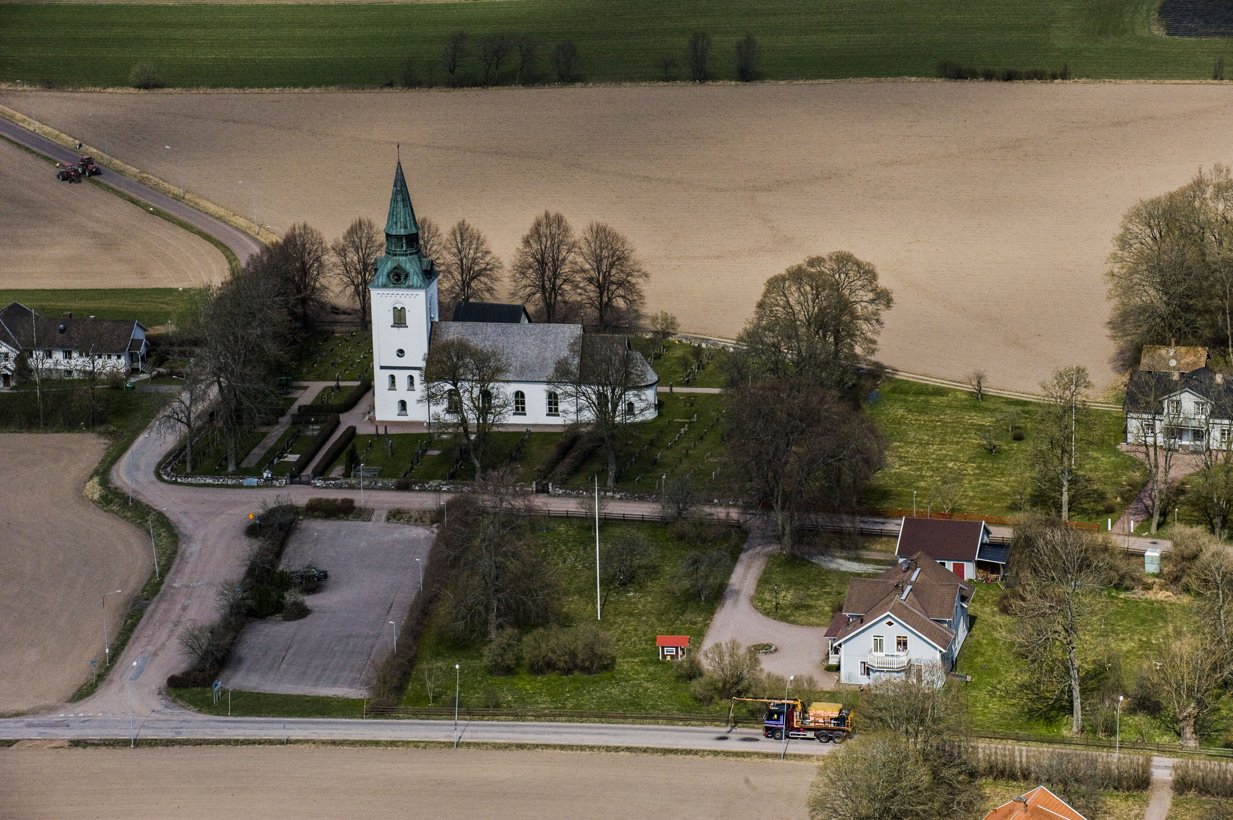 The Frinnaryd church from the air